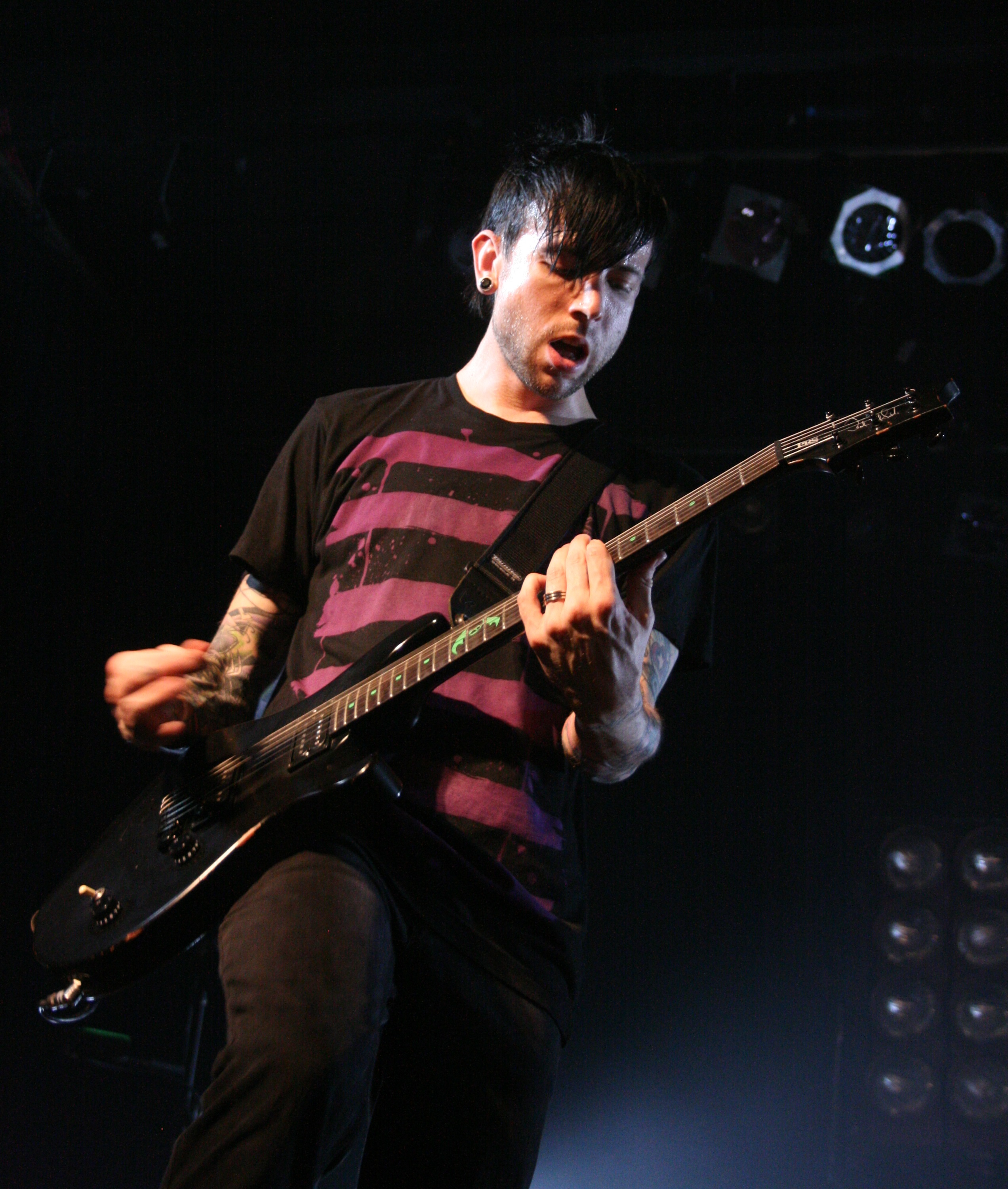 Billy Martin performing with Good Charlotte in 2008